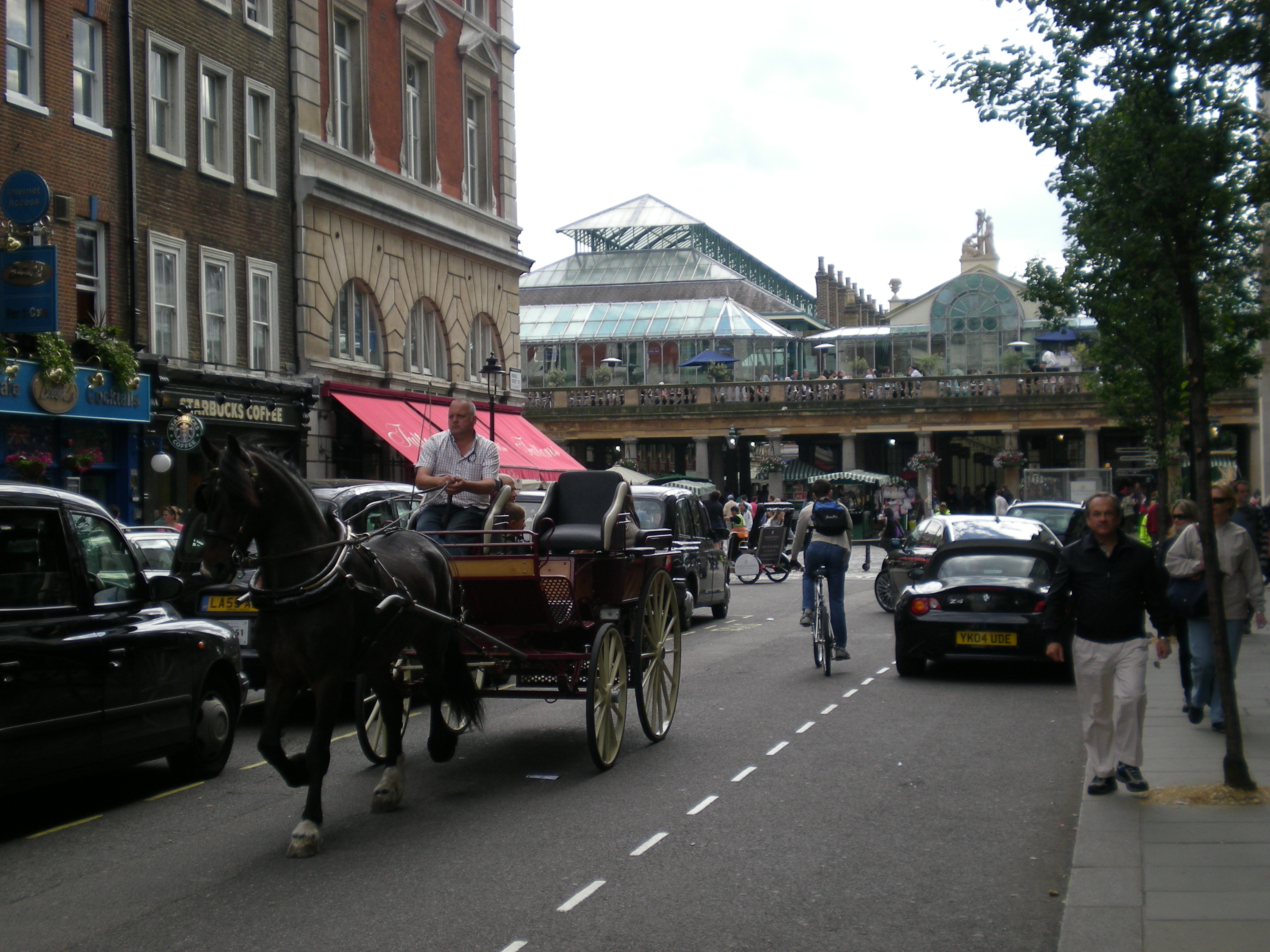 Street view down to Covent Garden Market.